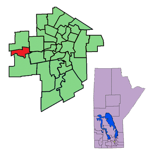 The 1999-2011 boundaries for the Kirkfield Park electoral district highlighted in red